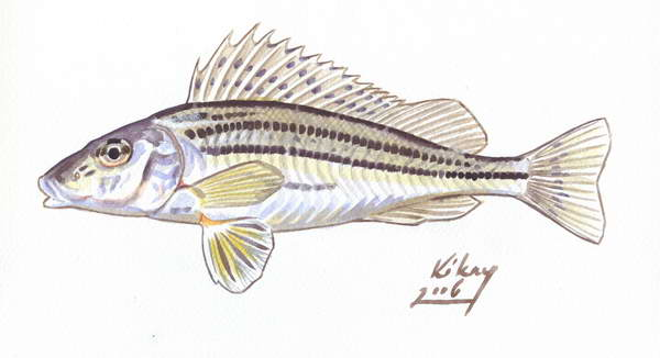 The schraetzer or striped ruffe (Gymnocephalus schraetzer) is a species of fish in the Percidae family.